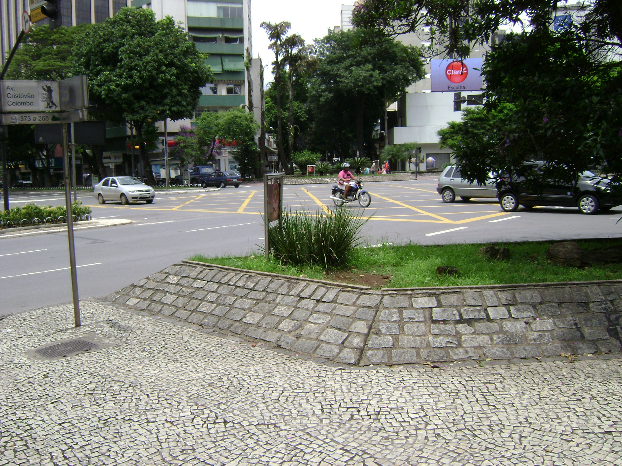 Praça da Savassi, in Belo Horizonte